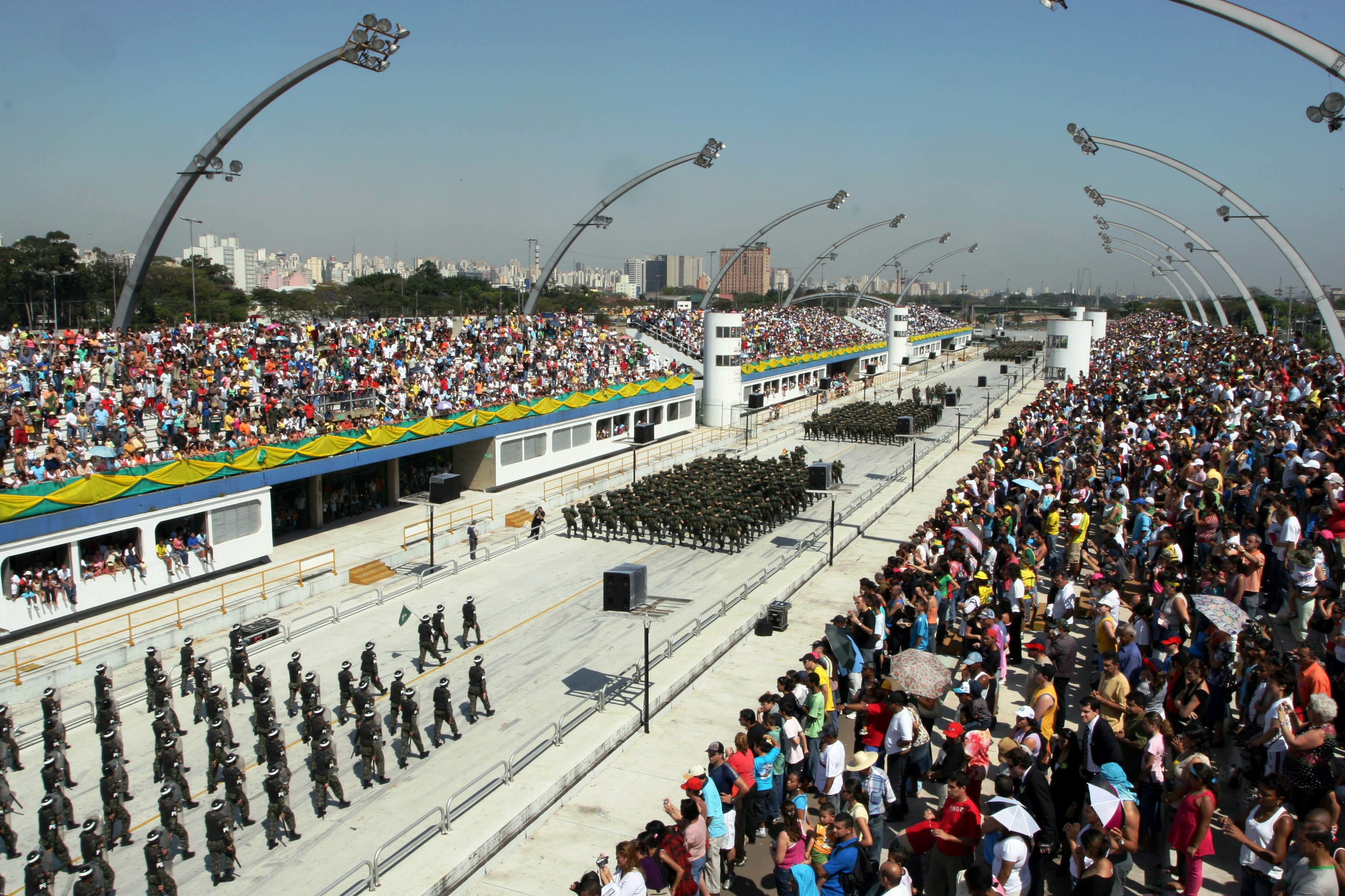 Independence Day in Brazil